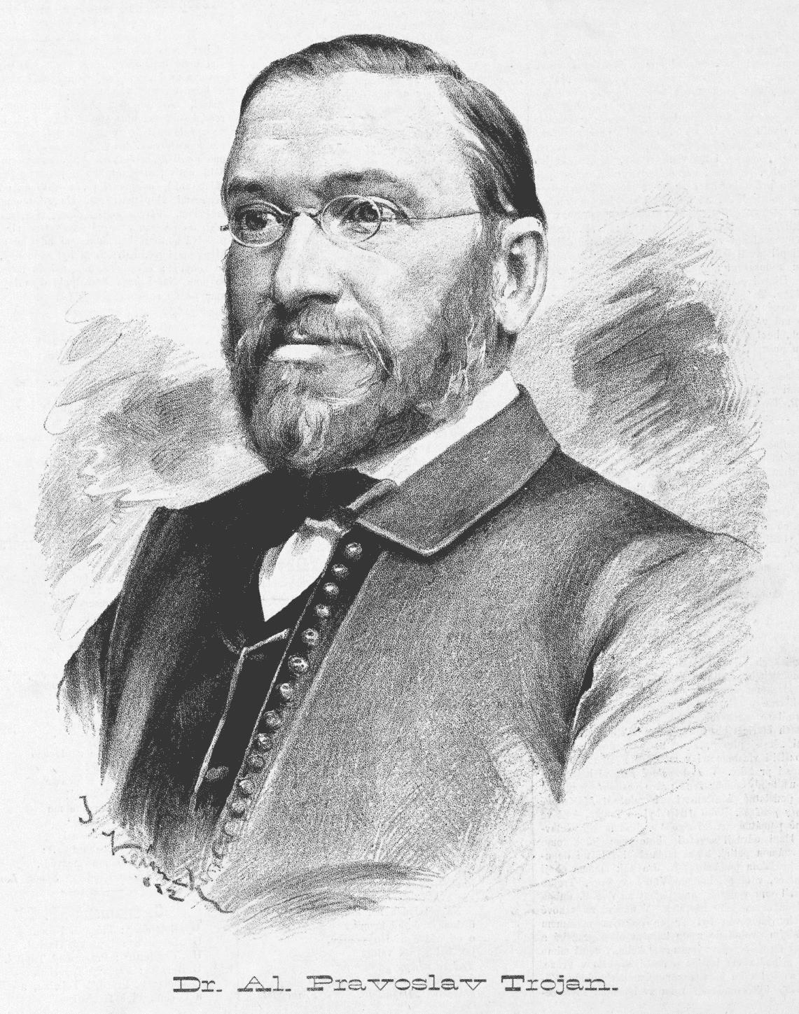 Portrait of Alois Pravoslav Trojan (1815 - 1893), Czech lawyer and politician